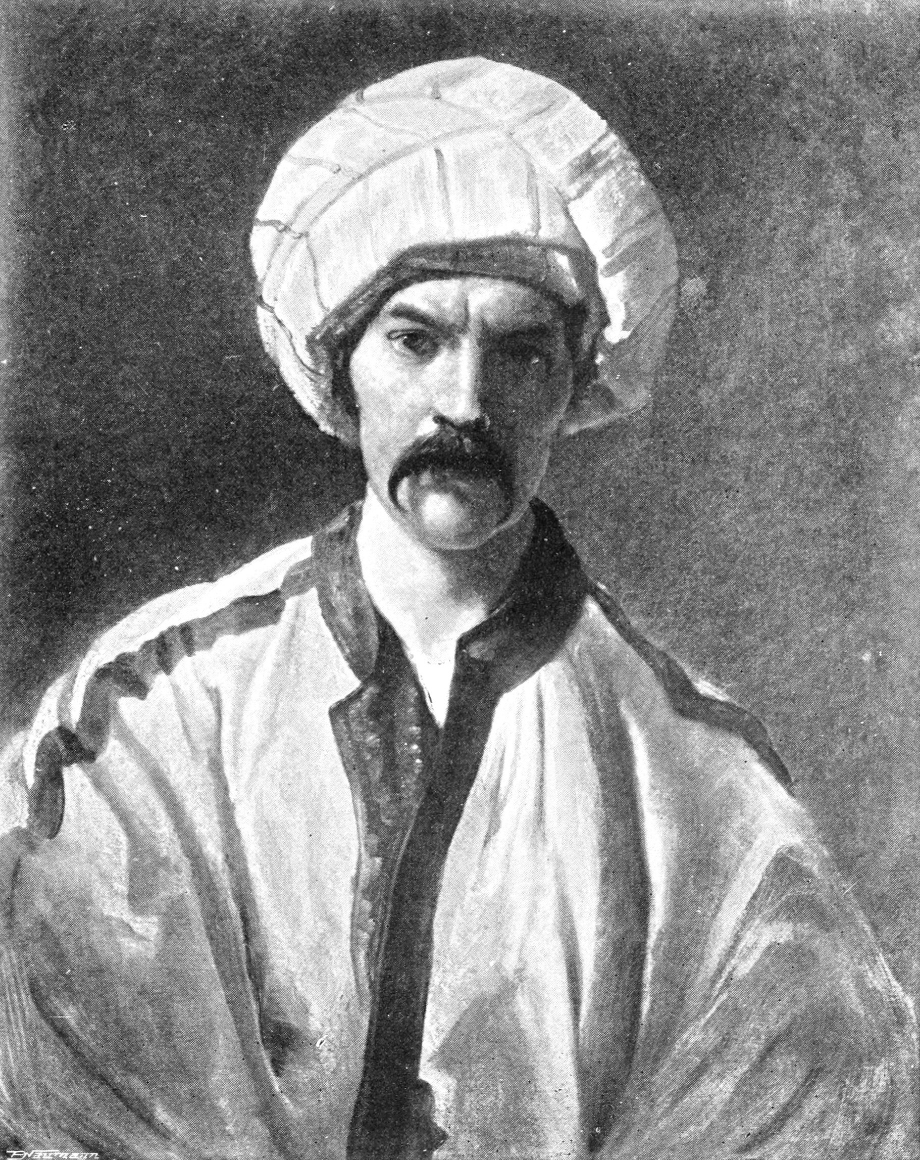 Photograph of Isabel Burton in 186. From The Romance of Isabel, p. 350